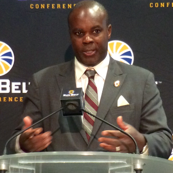 Everett Withers, head coach of the Texas State Bobcats football team, at the 2016 Sun Belt Conference Media Day in the Mercedes-Benz Superdome in New Orleans.